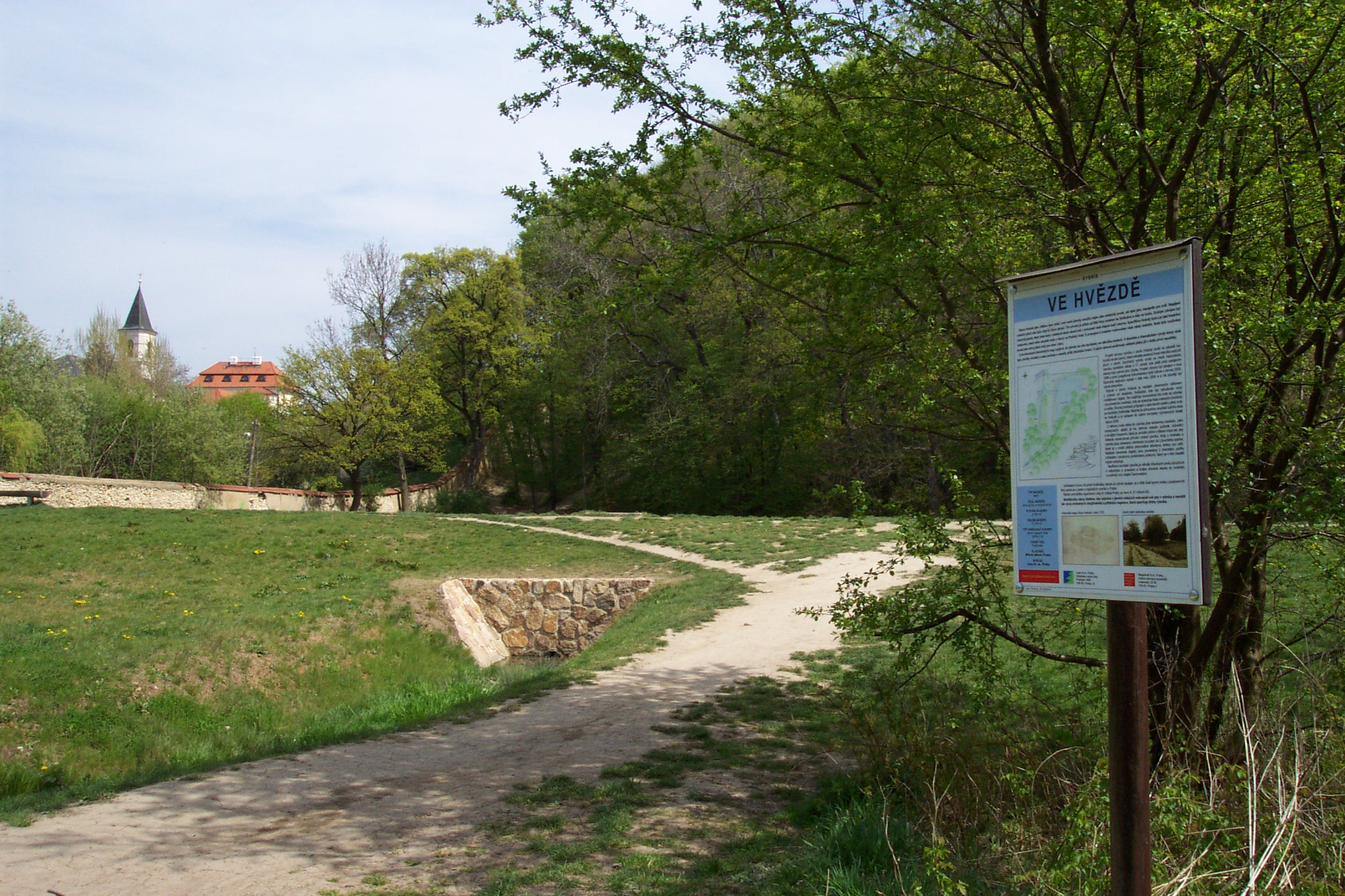 Prague, Liboc, the Hvězda park